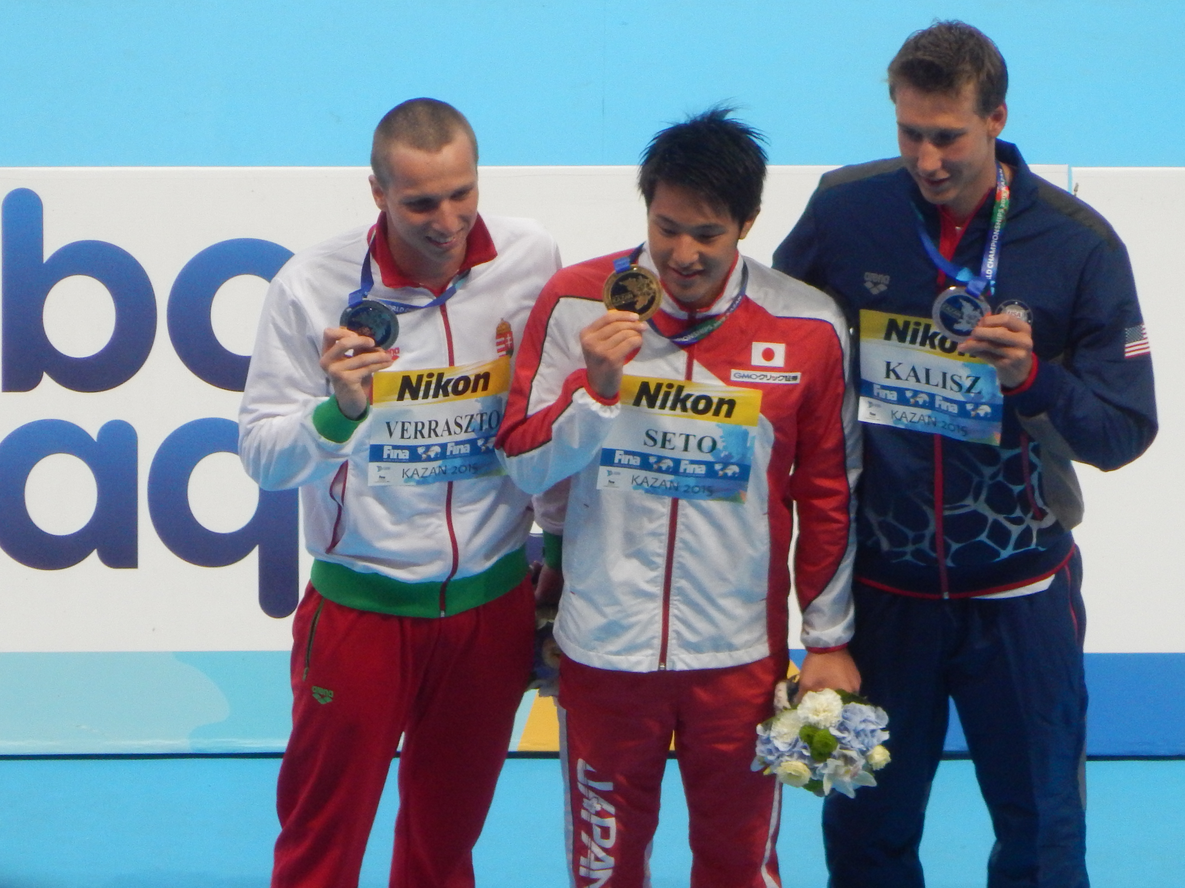 Medalists in swimming at the 2015 World Aquatics Championships – Men's 400 metre individual medley, left to right: David Verrasztó (silver), Daiya Seto (gold), Chase Kalisz (bronze).